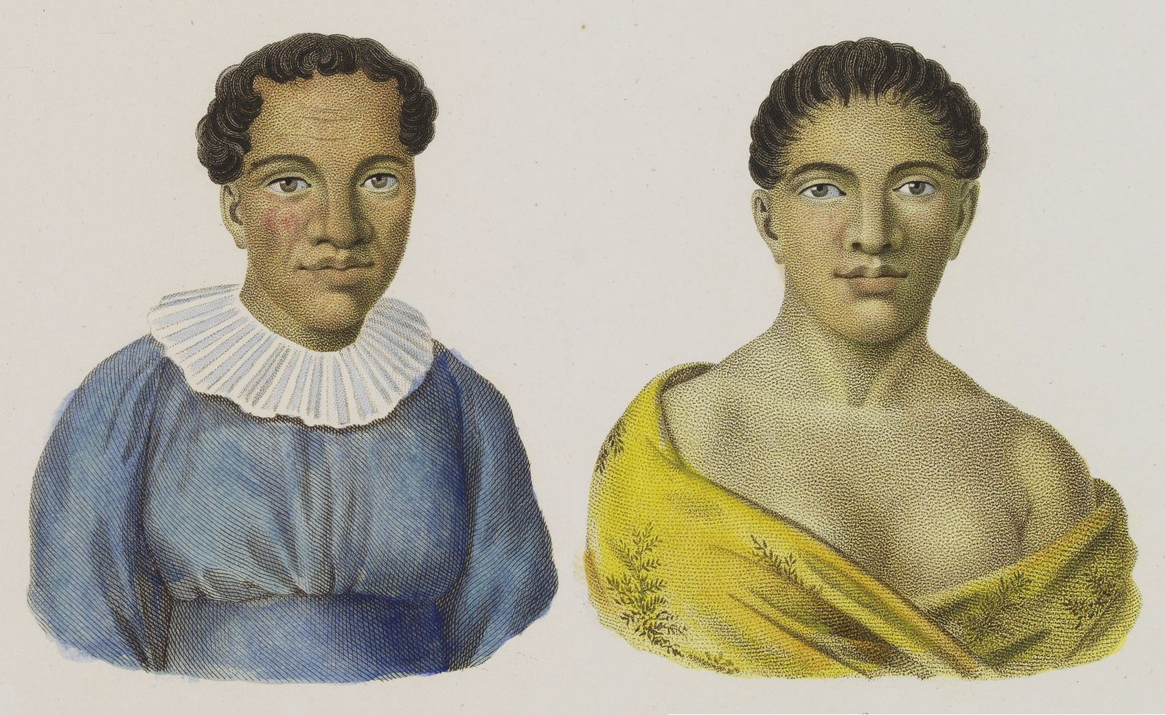 Femmes de l’ile Taïti. (Iles de la Société) 1. Po-maré Vahiné, régente. 2. Téré-moémoé ; veuve de Po-maré II. Depiction from "Voyage autour du Monde, exécuté par ordre du Roi, sur la corvette de sa Majesté, La Coquille pendant les années 1822, 1823, 1824 et 1825. Hydrographie, Atlas." by Louis Isidore Duperrey (1786-1865).